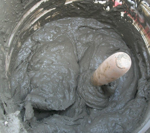 Mortar mix inside a bucket. Start with about a fifth of a 5-gallon bucket with clean water. Add powder mortar mix slowly, stirring with a trowel. Wear gloves (do not expose skin to mortar). Using a mixing propeller attached to a drill-driver can speed up mixing. If mix is too soupy, it's not ready; keep adding powder. When mix is of a firm consistency (photo), it's ready for use. It will harden soon; do not let it sit. If mix gets too clumpy, add a tiny bit of water. Photo source: here (says "public domain" at top of file). Questions? my Wikipedia page or email me at .